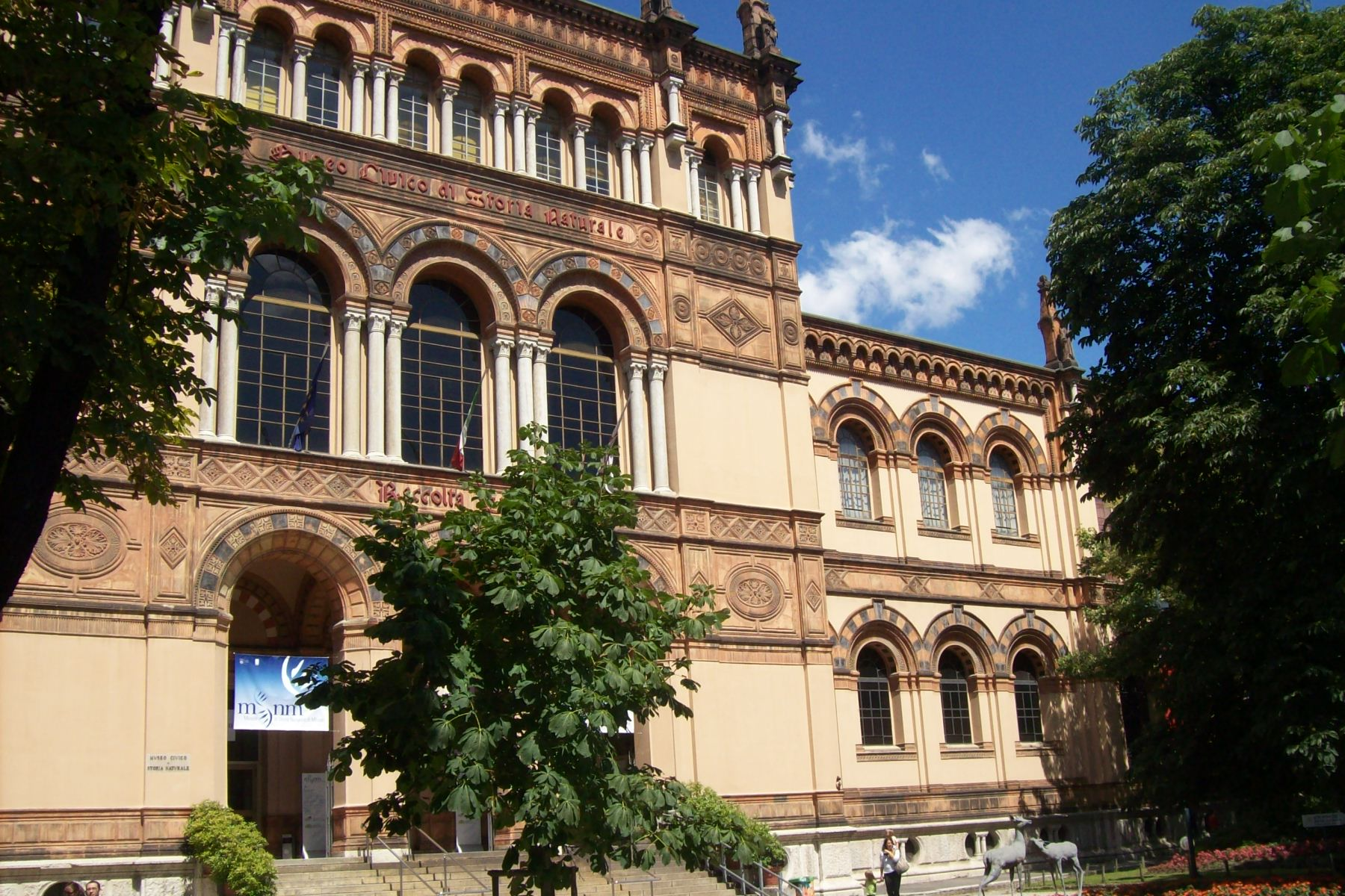 Museum of Natural History - Milan